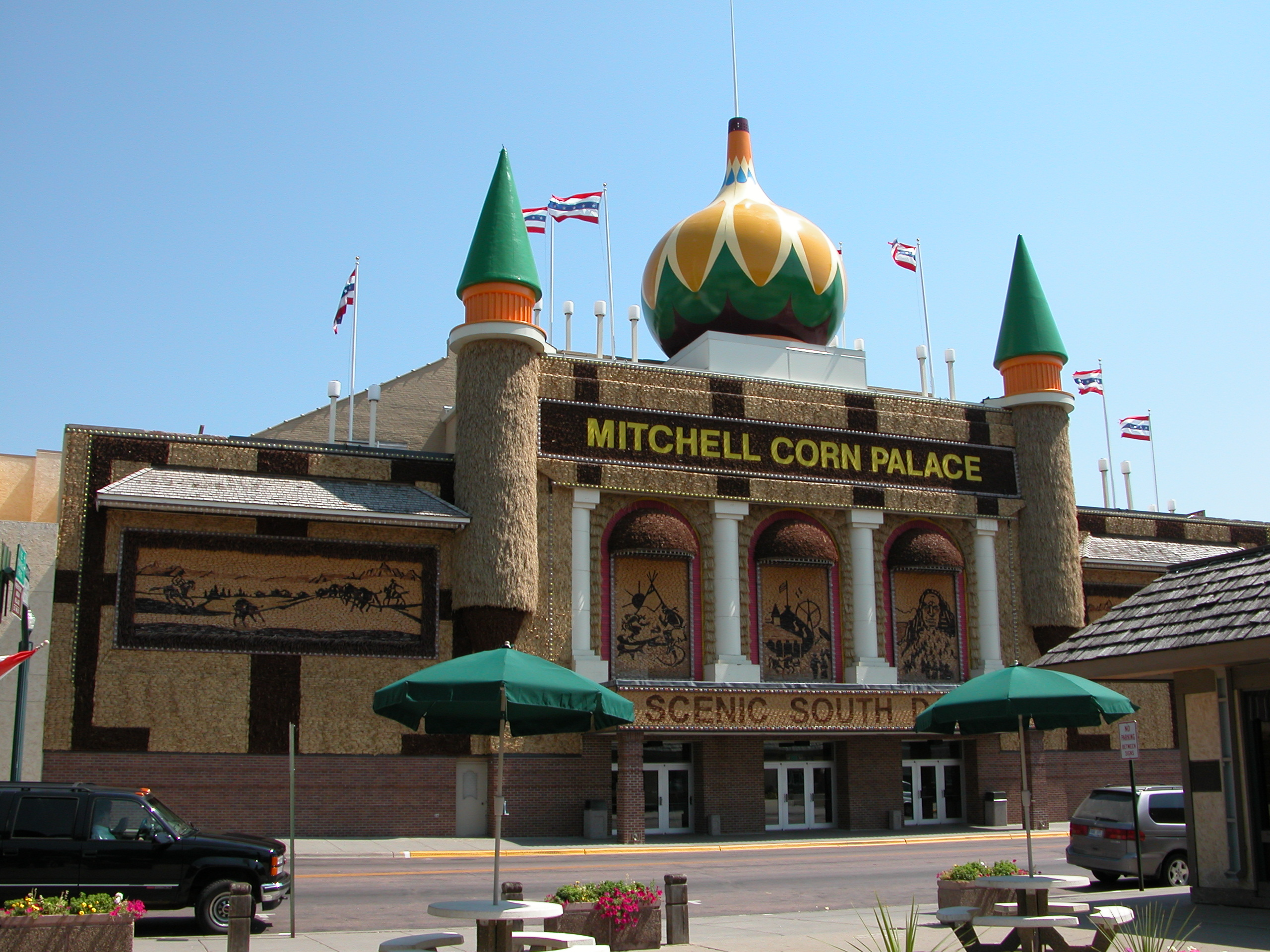 Corn Palace in Mitchell, South Dakota in 2003. The design is different every year.